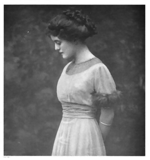 Actress Edith Taliaferro